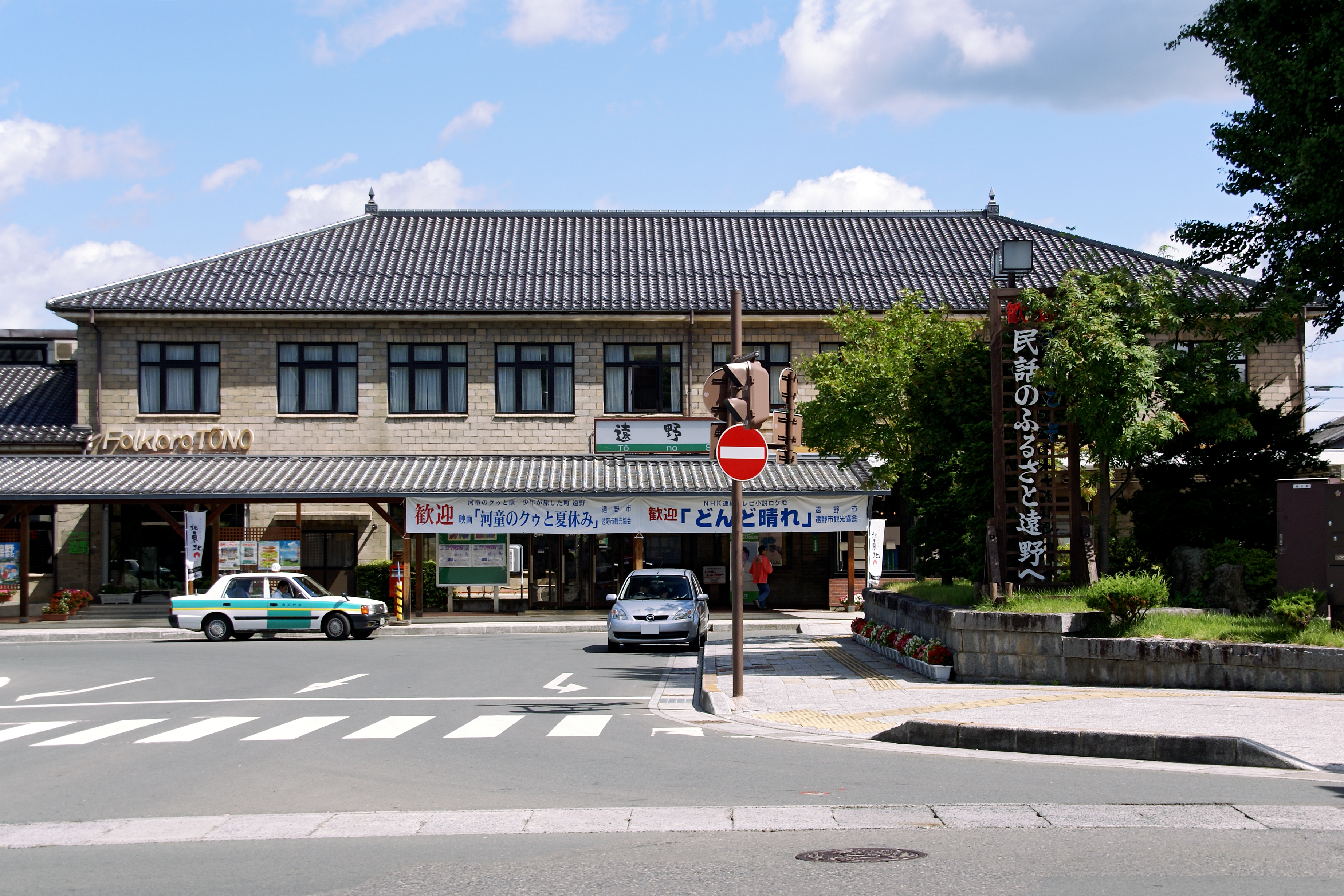 Tōno Station in Tono, Iwate prefecture, Japan